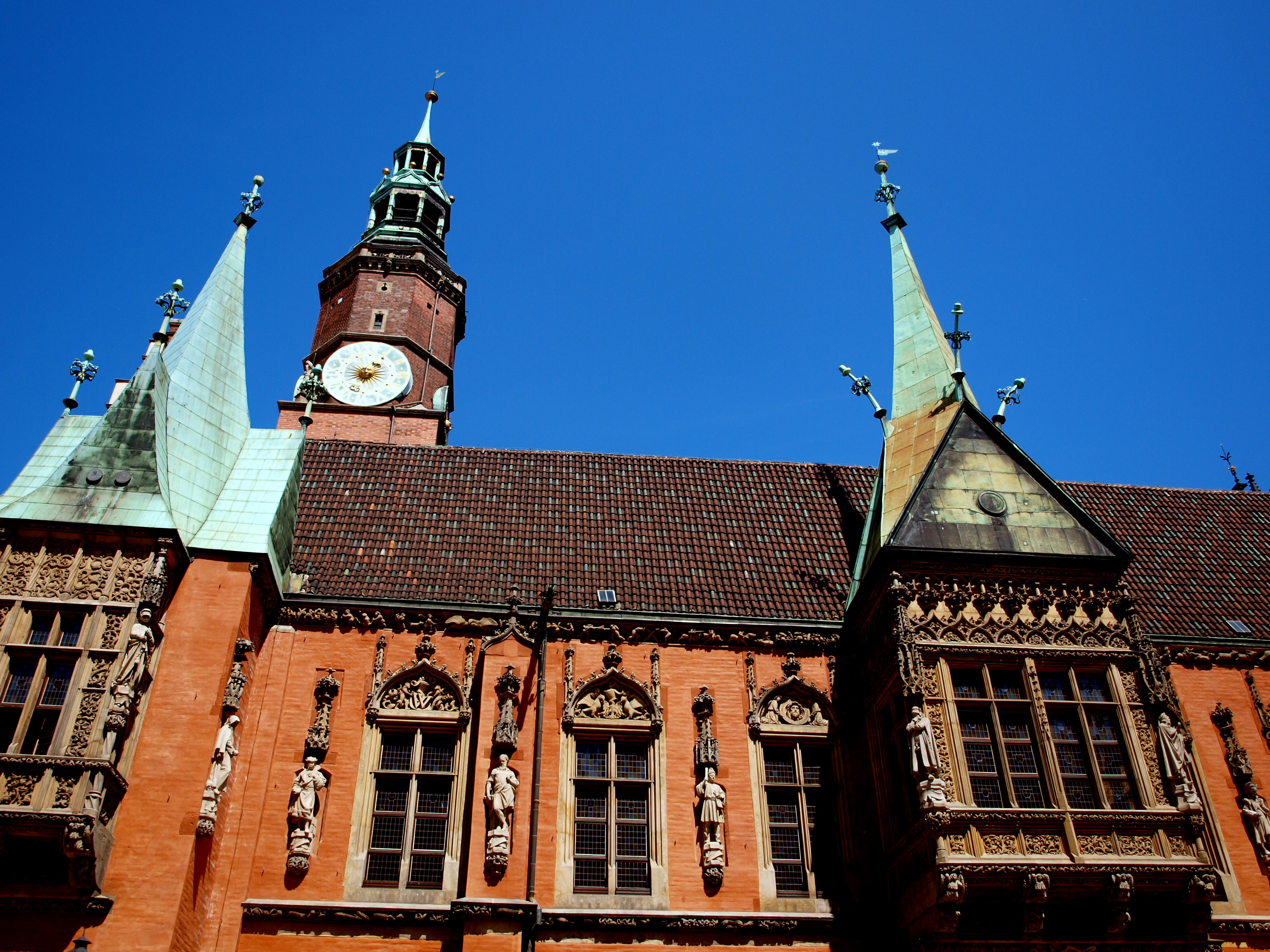 Wrocławski Ratusz